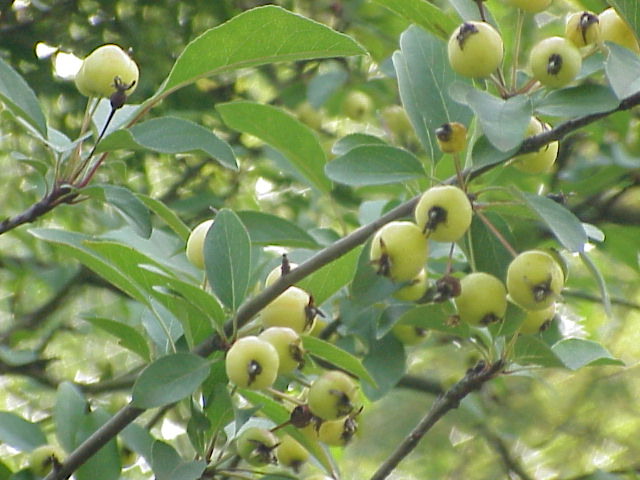 Species: Malus micromalus Family: Rosaceae Image No. 1